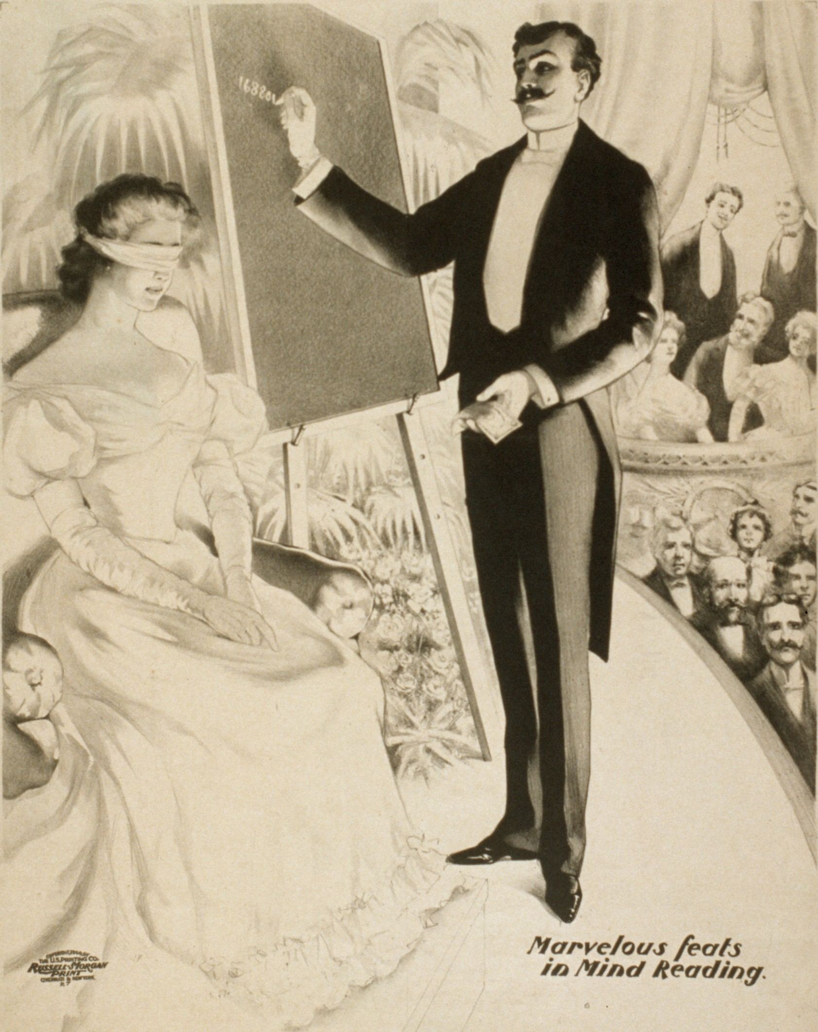 Marvelous feats in mind reading. Poster print, lithograph, B&W, 70cm×53cm